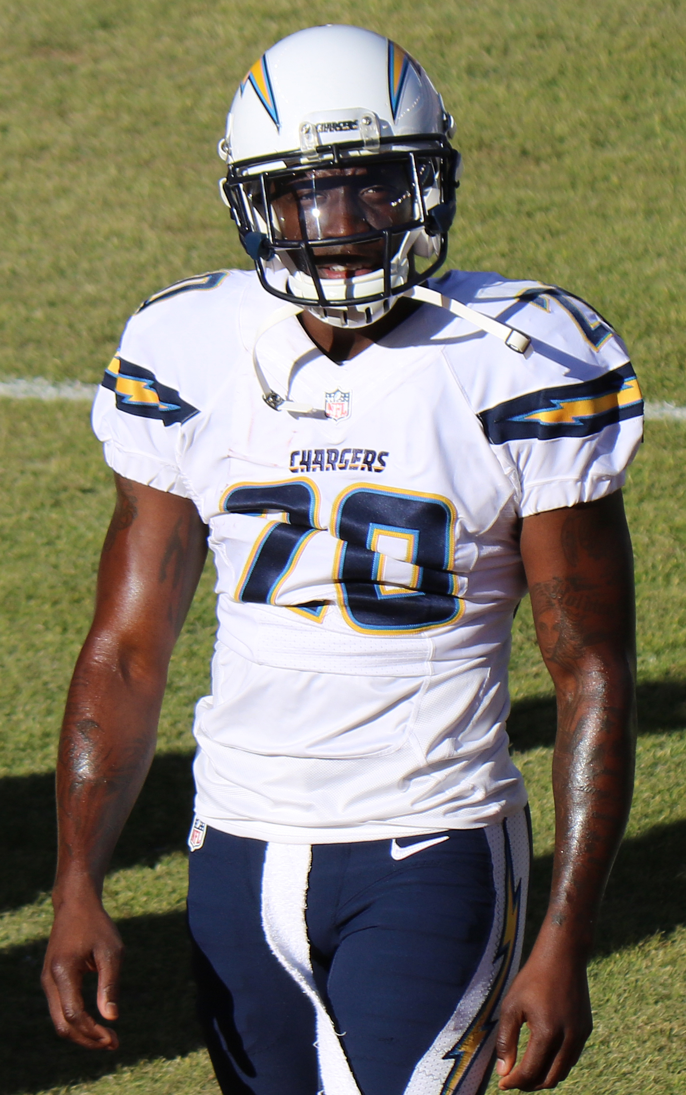 Cassius Vaughn, a player on the National Football League.